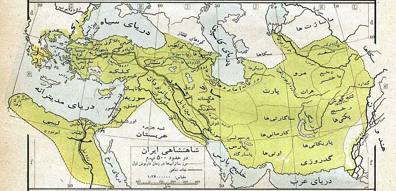 A translation of "Map of the Achaemenid Empire.jpg" into Persian.